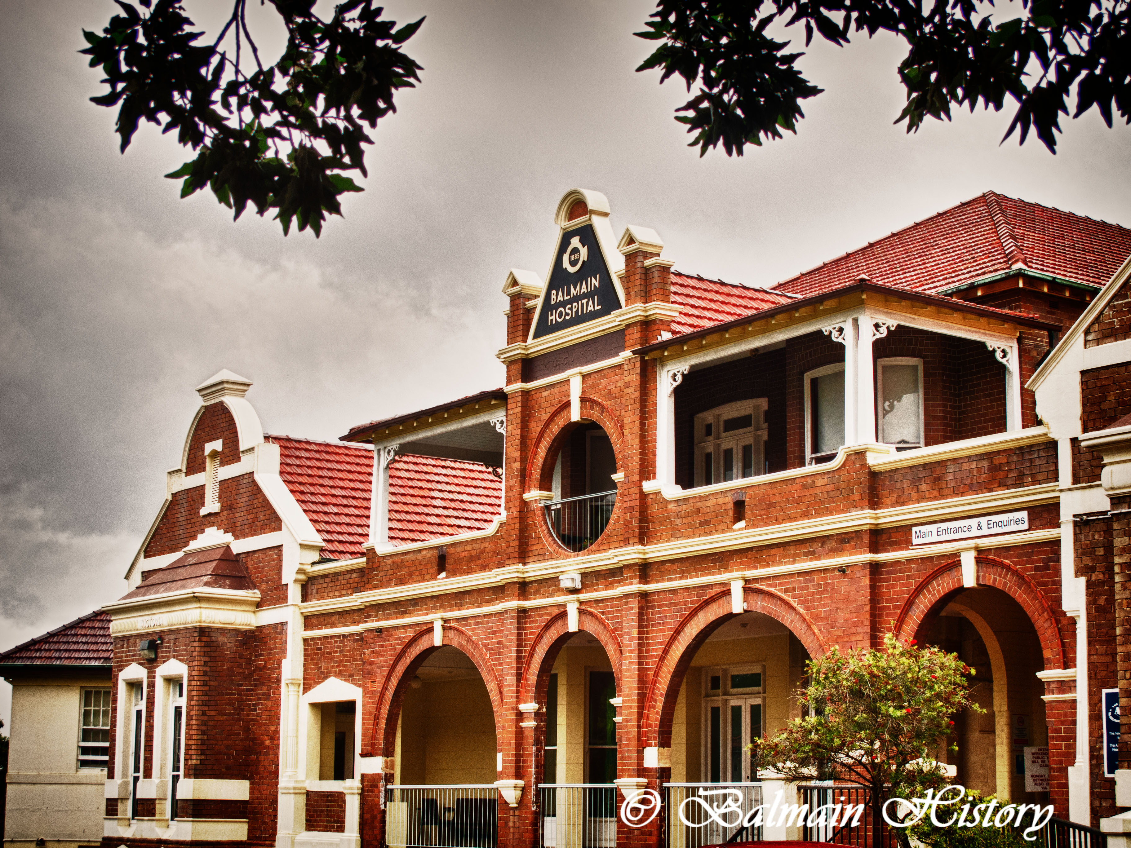 See where this picture was taken. Balmain Hospital was opened on the Balmain peninsula on the 26th of June 1885, as a small local hospital with two beds The Main Builing is a substantial and impressive hospital building; an important townscape element adjacent to the park. Of social importance as the hospital continues its community role within Balmain. Description: It is a two storey brick building with a basement. The building is brick with a stucco faade.